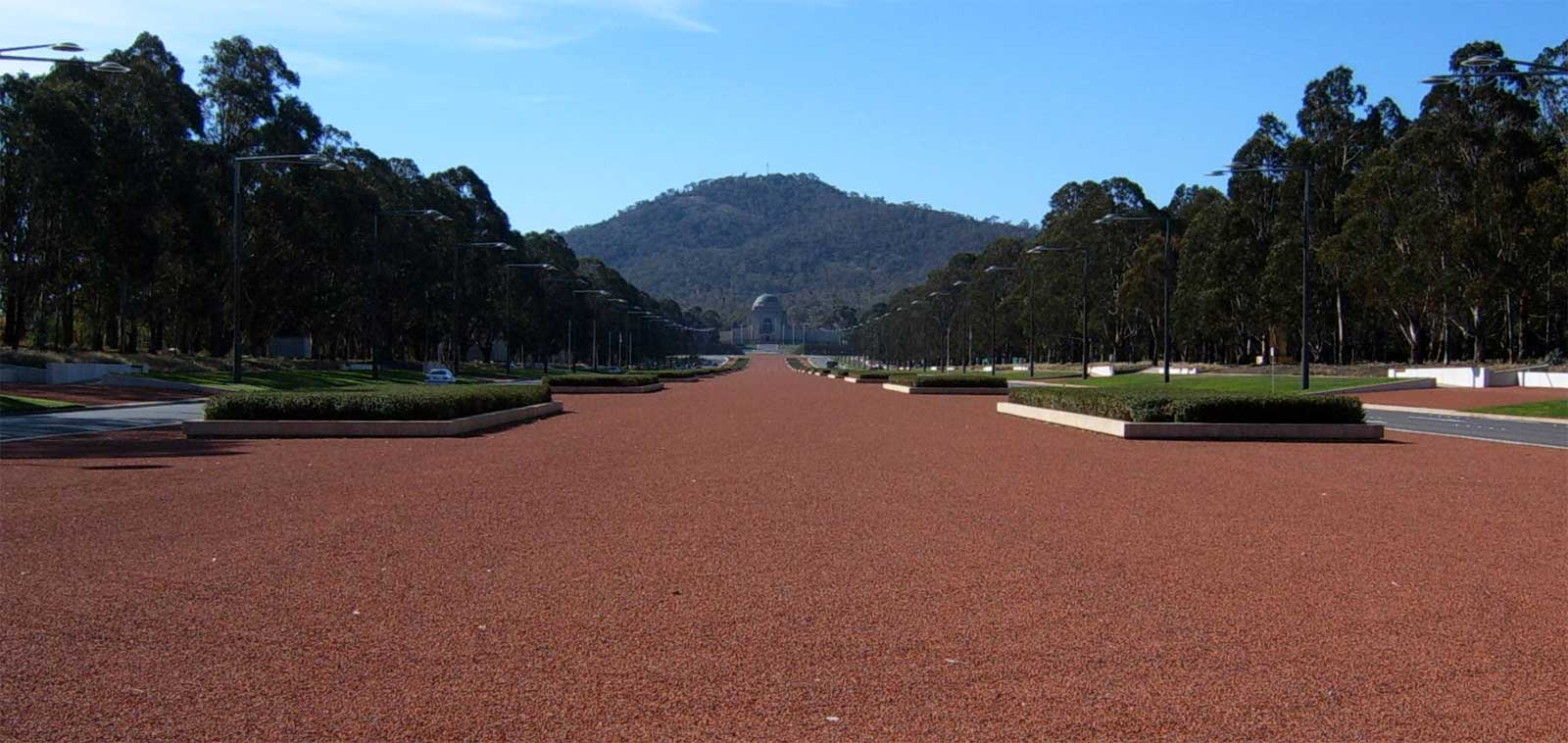 ANZAC Parade is the principal ceremonial and memorial avenue of Canberra, the capital of Australia, and is a central bisector of the Parliamentary Triangle.